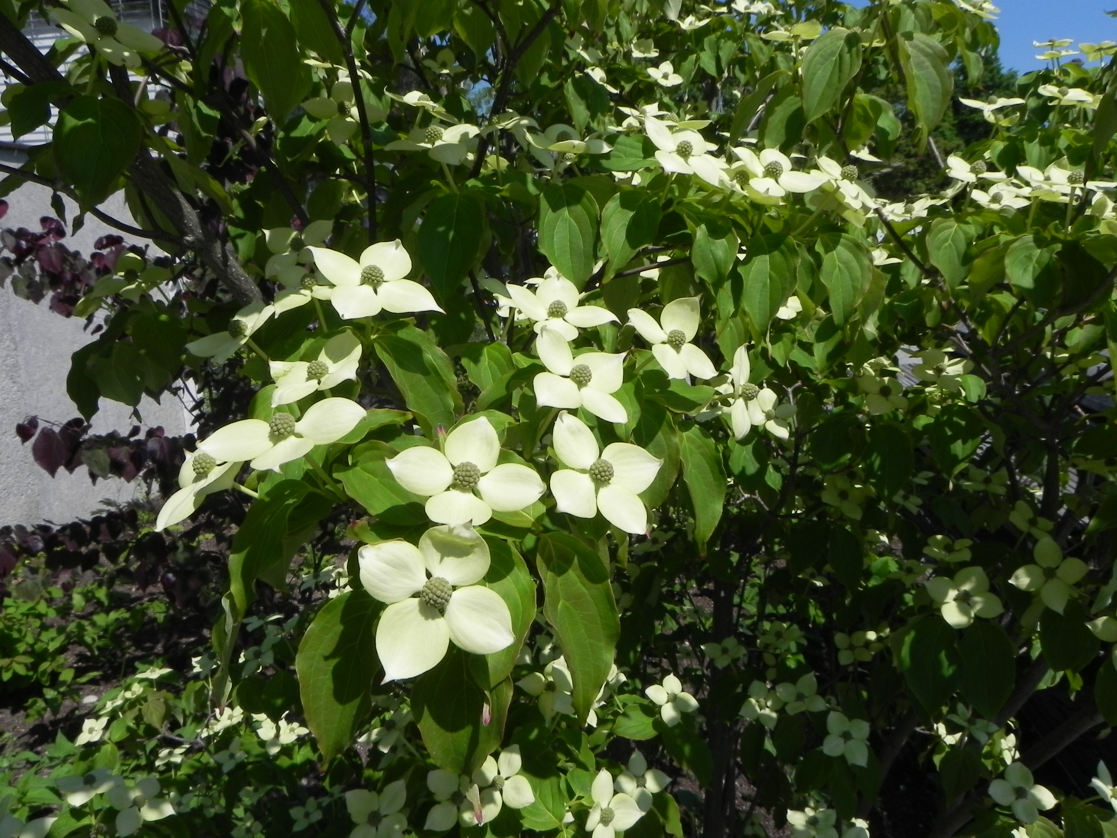 Cornus kousa in Munich botanical garden